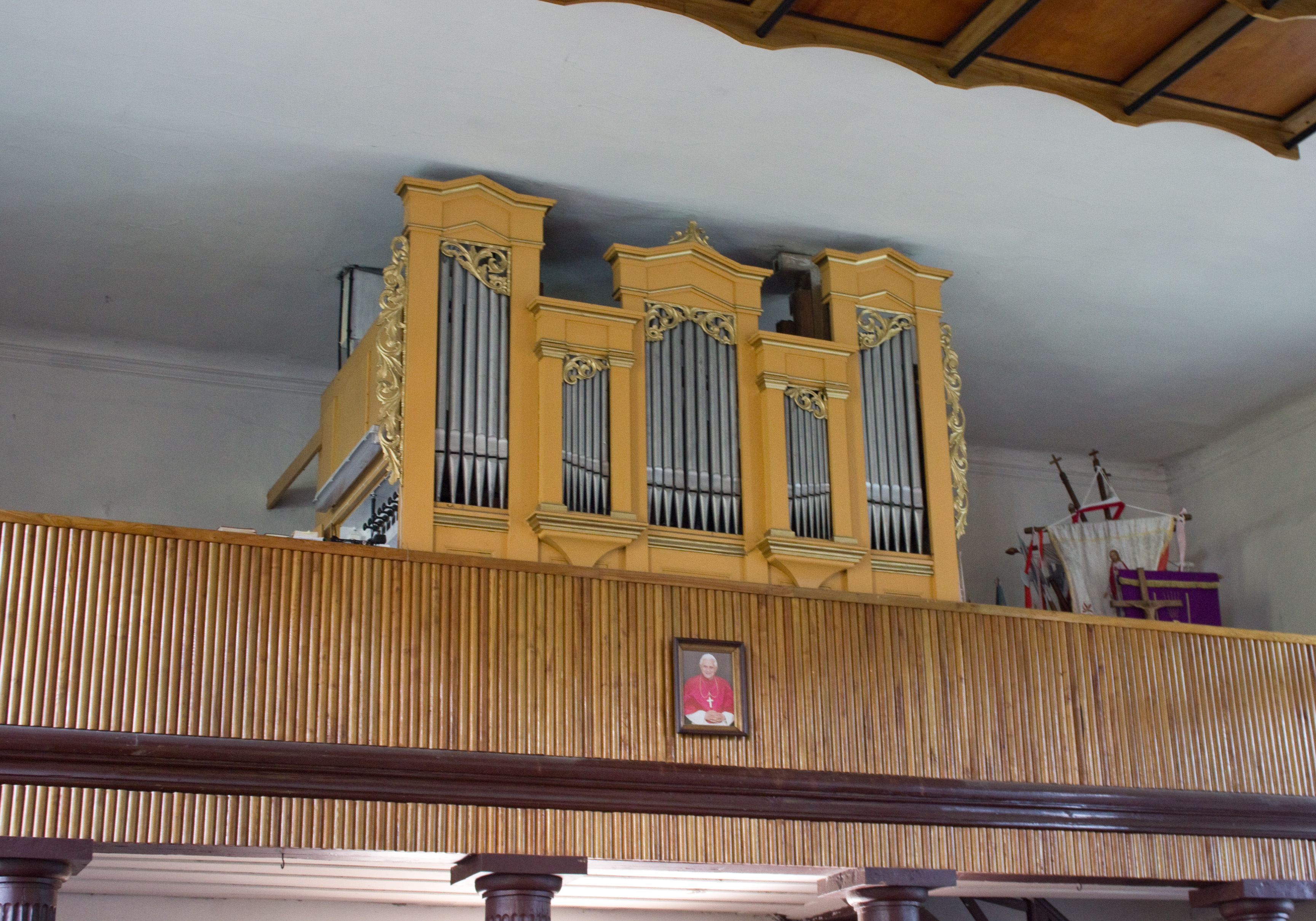 Church, Sterławki Wielkie, gmina Ryn, powiat giżycki, Warmian-Masurian Voivodeship